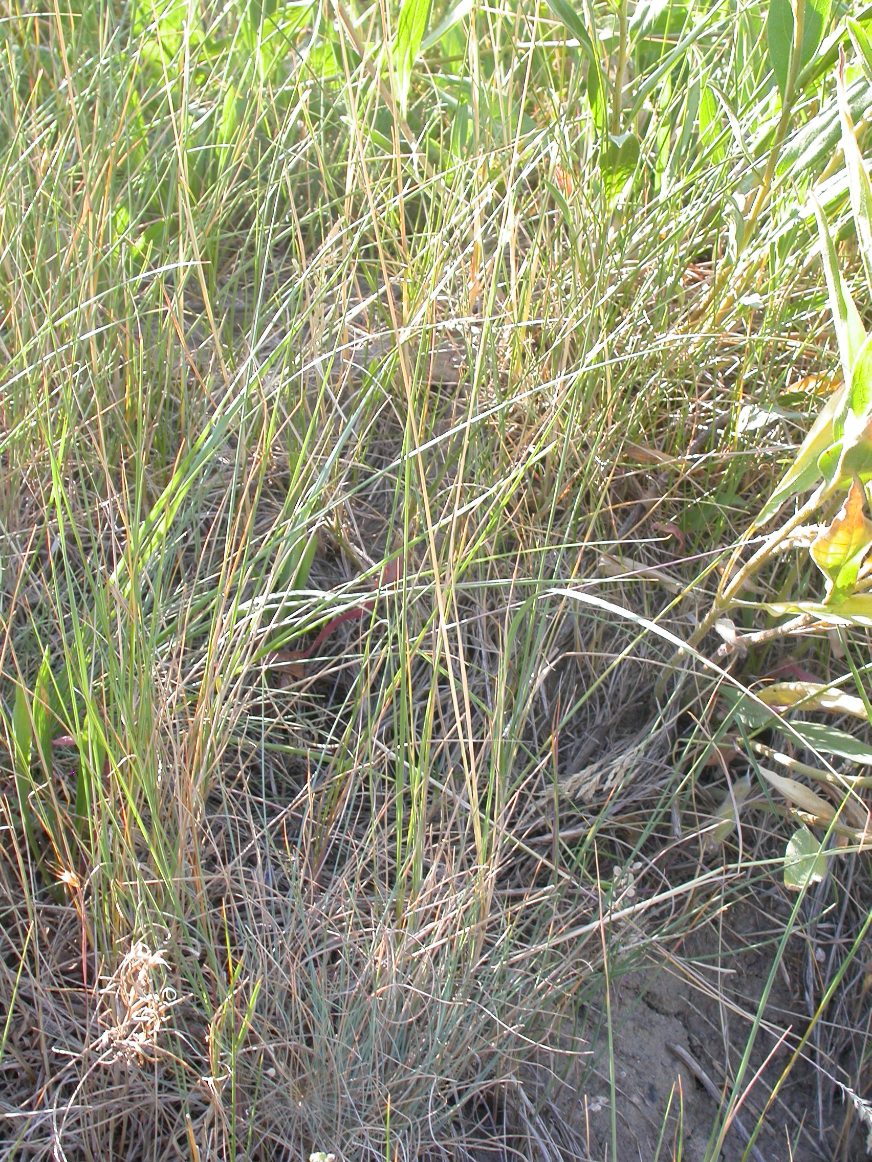 Of the common bunchgrasses, Idaho fescue forms perhaps the tightest bunch from which many narrow often bluish green leaf blades arise (bottom center).